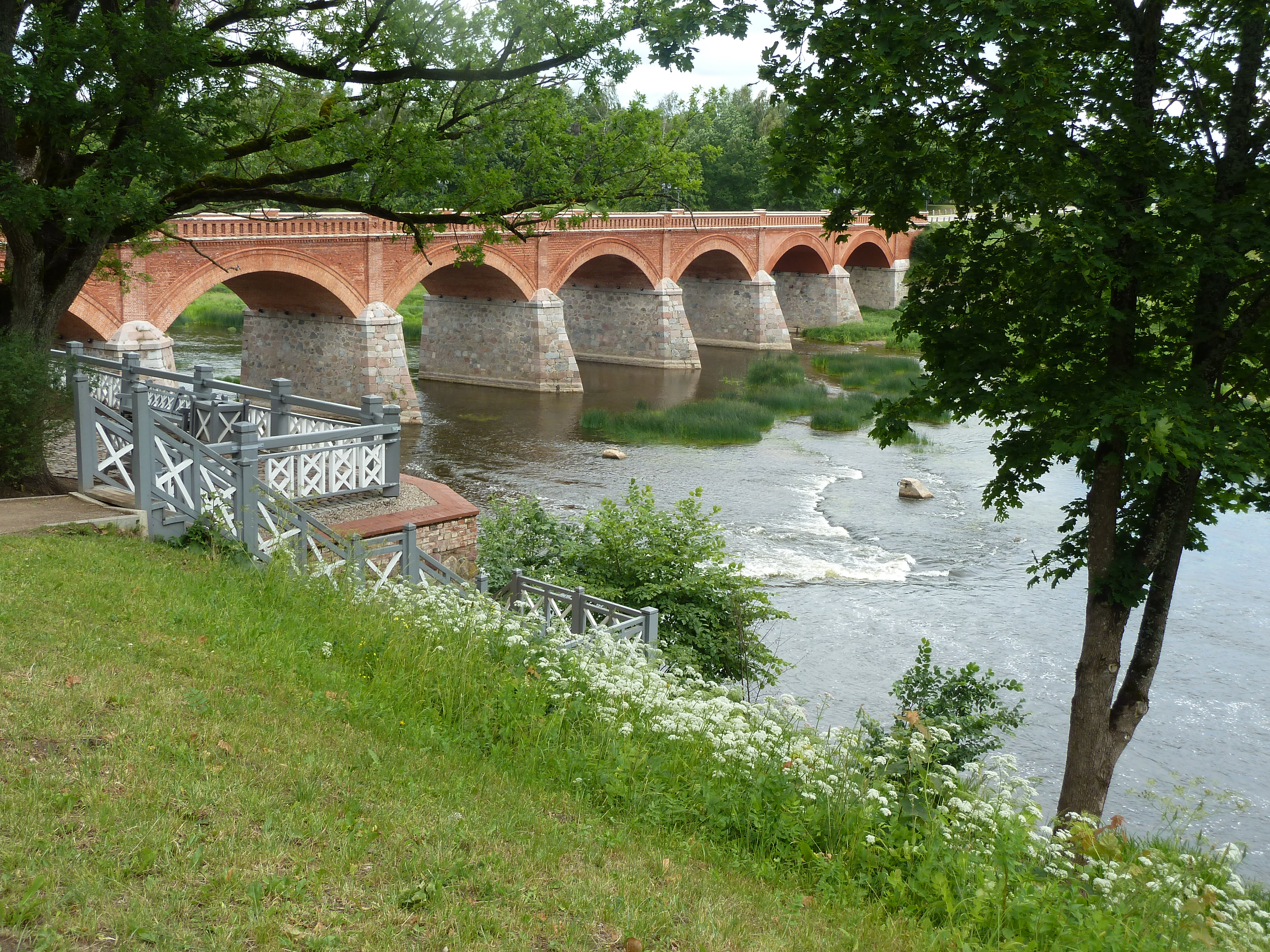 Bridge at Ventas rumba, Kuldīga, Latvia.